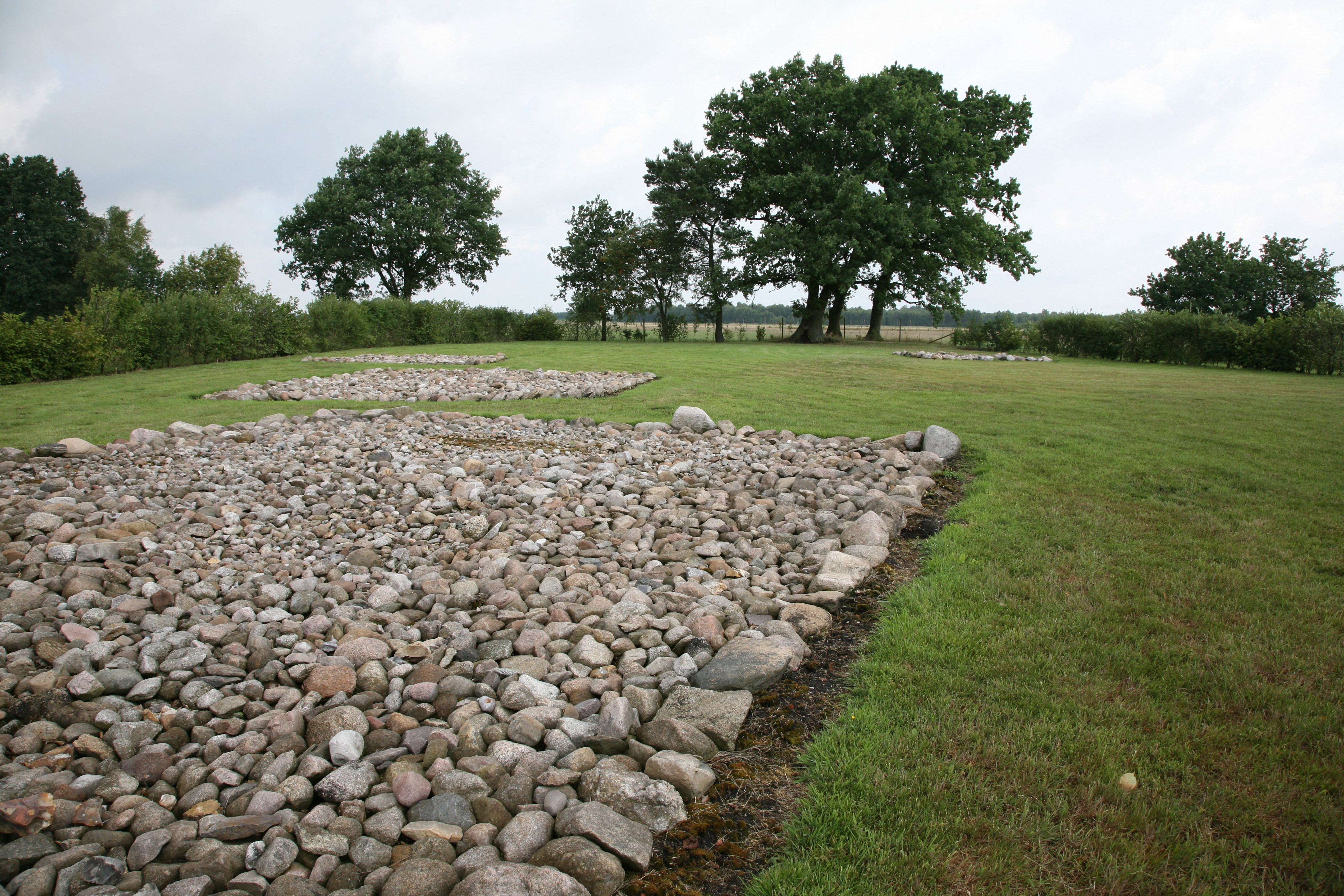 The site of a mediaeval fort near Revenahe-Kammerbusch in Niedersachsen